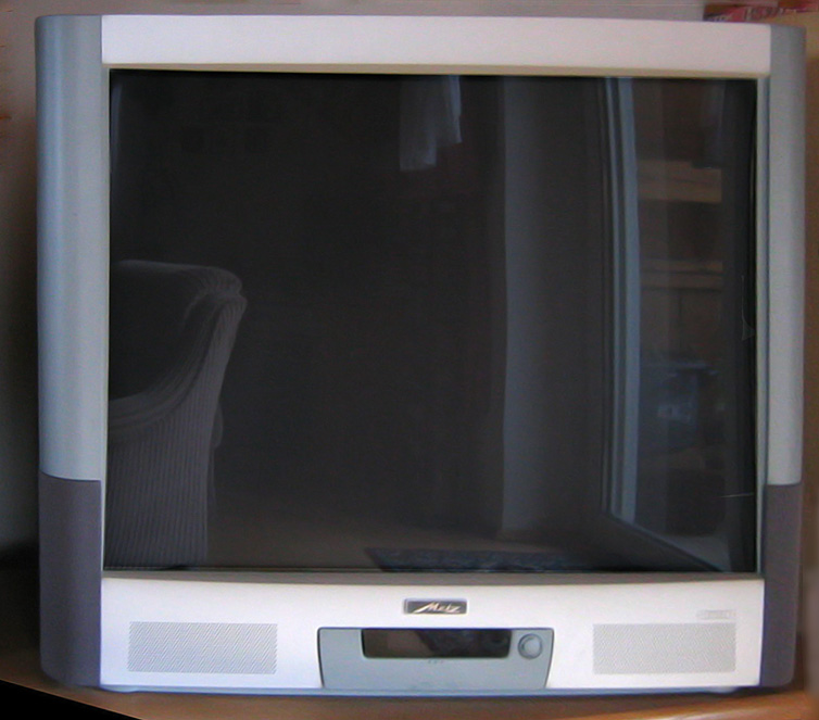 This is the television Spectral 72 by Metz. *Dies ist der Röhrenfernseher Spectral 72 von Metz. License information: *I took the photo myself. *--Thomaswm 09:23, 22 January 2006 (UTC)